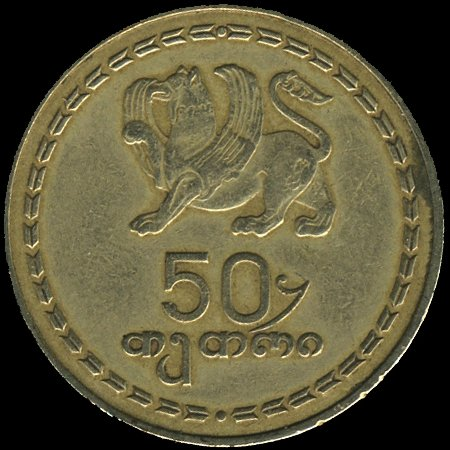 50 Georgian tetri